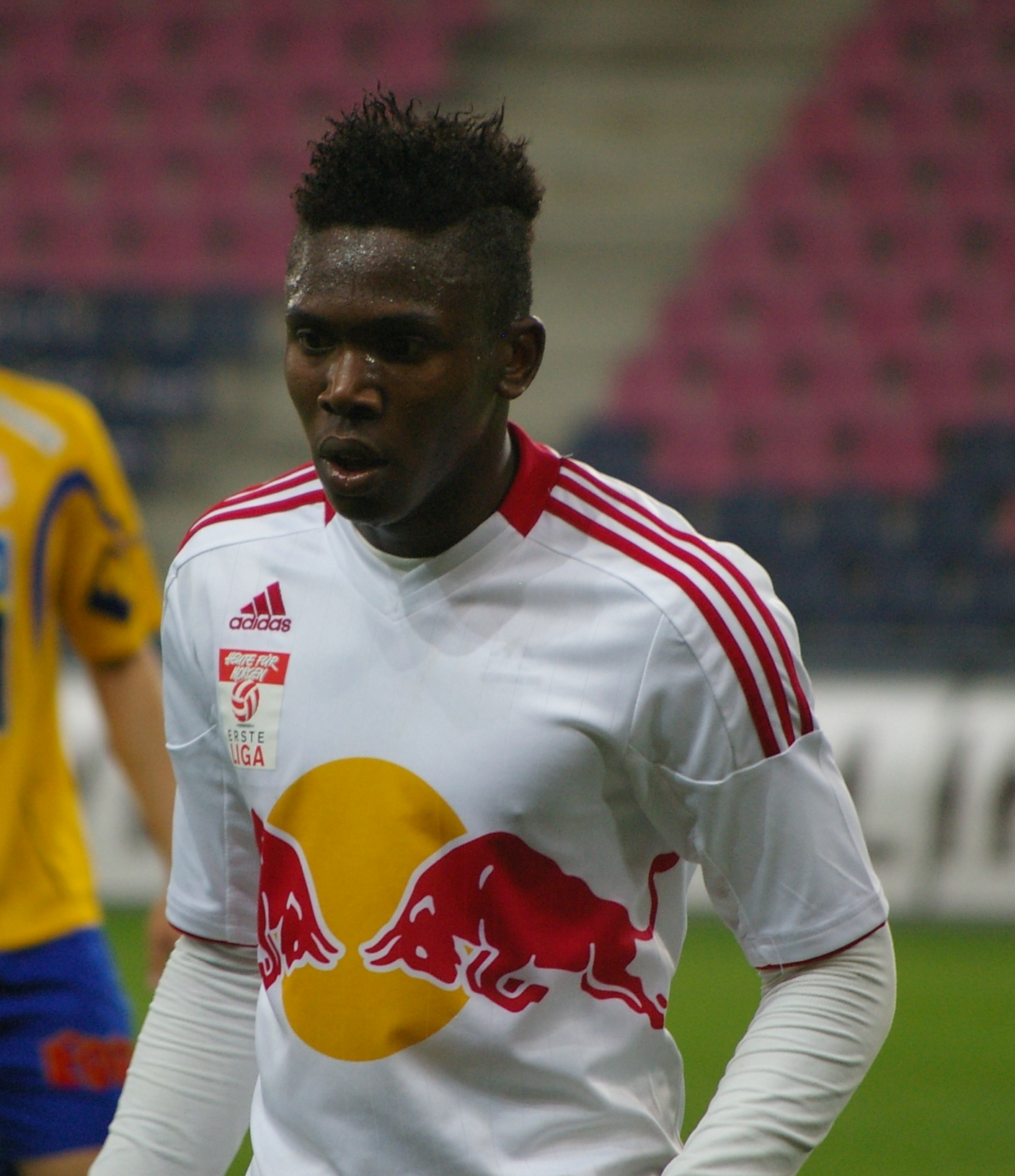 league match Austria 2nd league